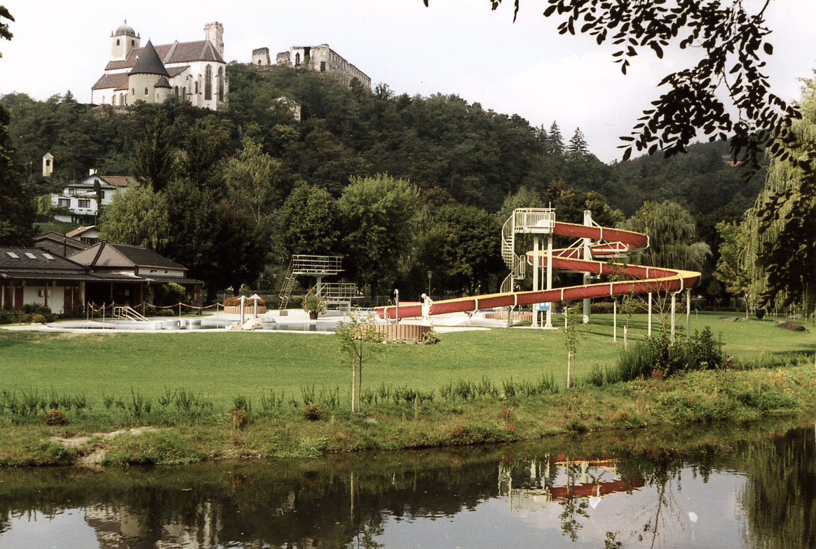 Gars and Kamp river in 2003 with castle